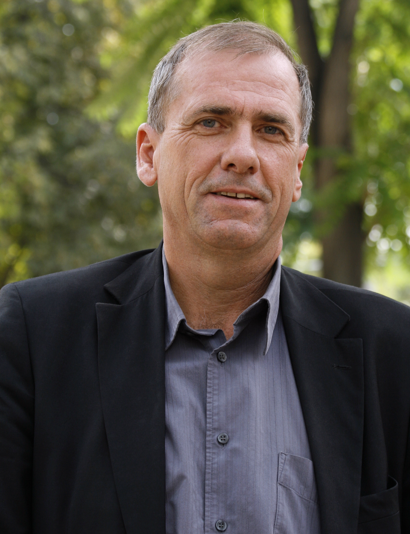 Austrian politician Erwin Rasinger (Austrian People's Party, ÖVP) during the campaign for the Austrian legislative election, 2008 (Vienna)